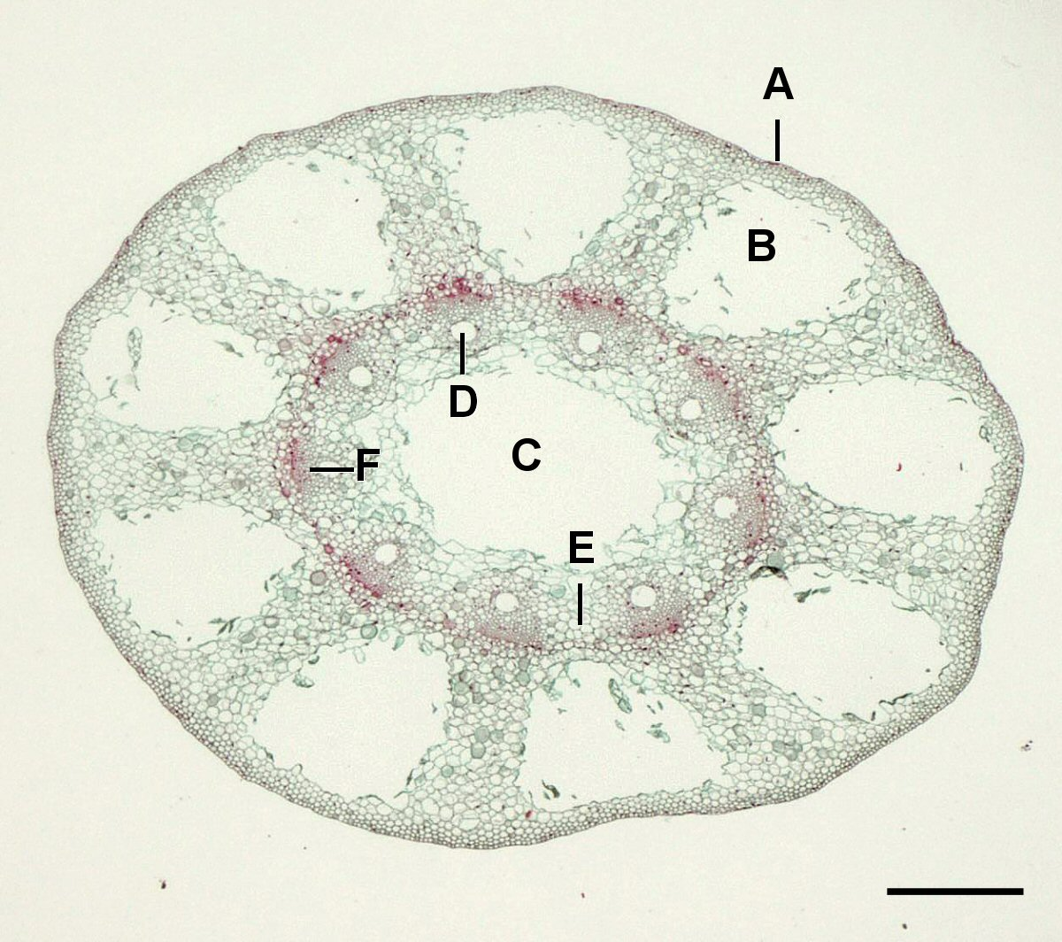 Cross section of the Equisetum stem. A=Epidermis, B=Vallecular canal, C=Central canal, D=Carinal canal, E=Phloem, F=Xylem. Scale=0.525mm.